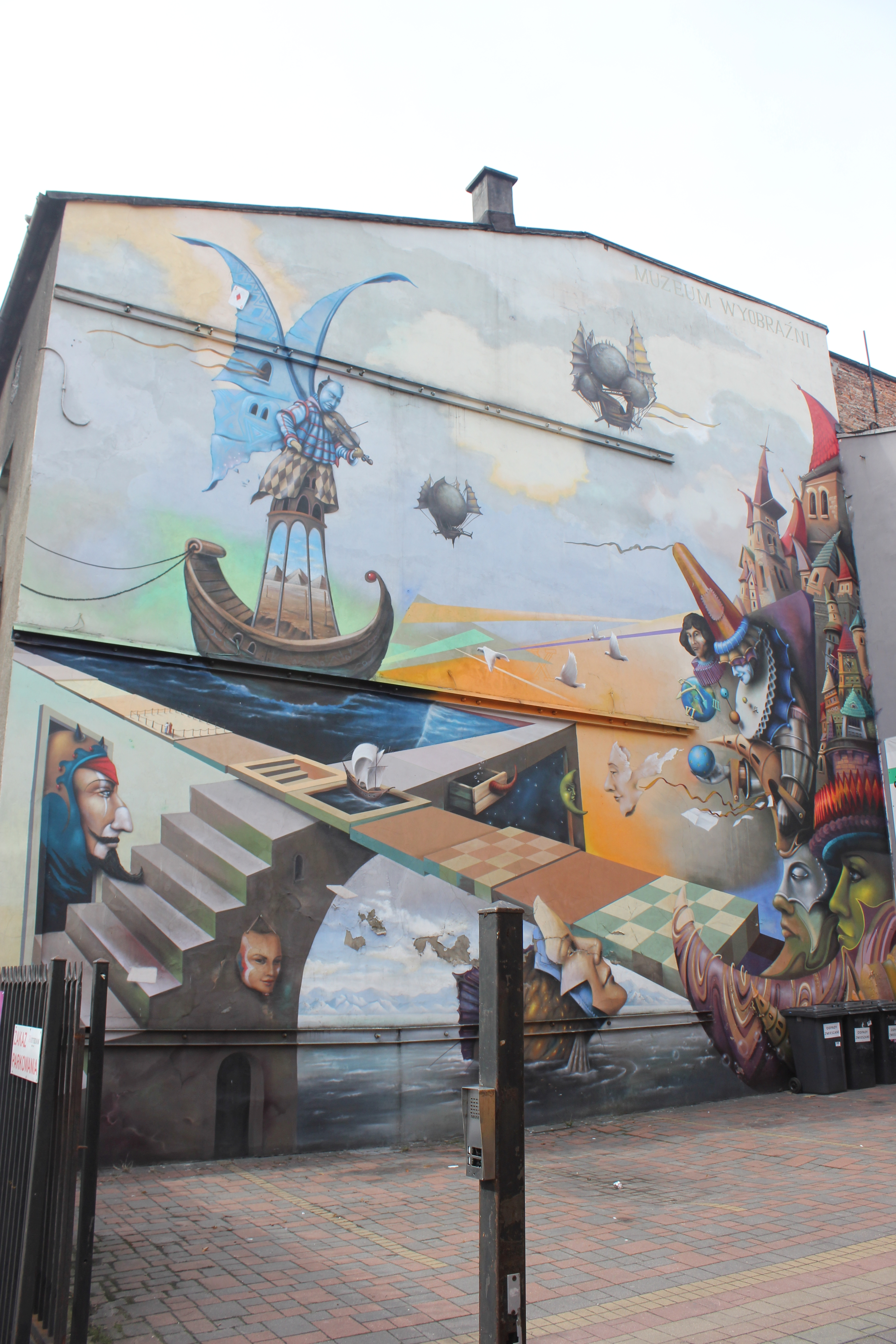 Częstochowa - a mural by Tomasz Sętowski in Szymanowskiego str.